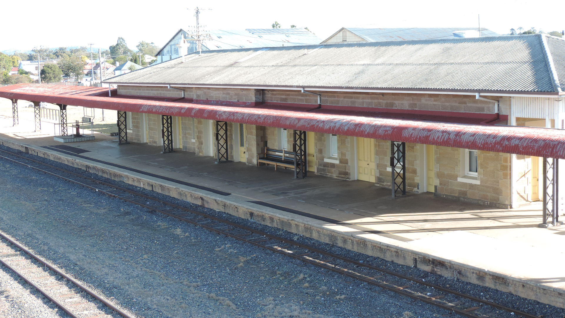 Passenger platform, Warwick railway station, 2015